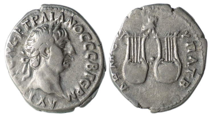 Silver Drachm of Lycia, during Roman rule.